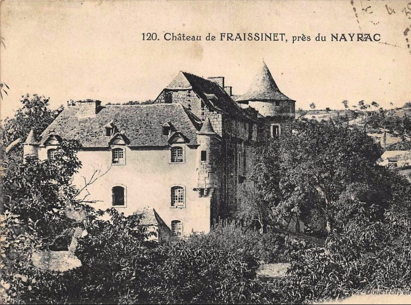 Carte postale